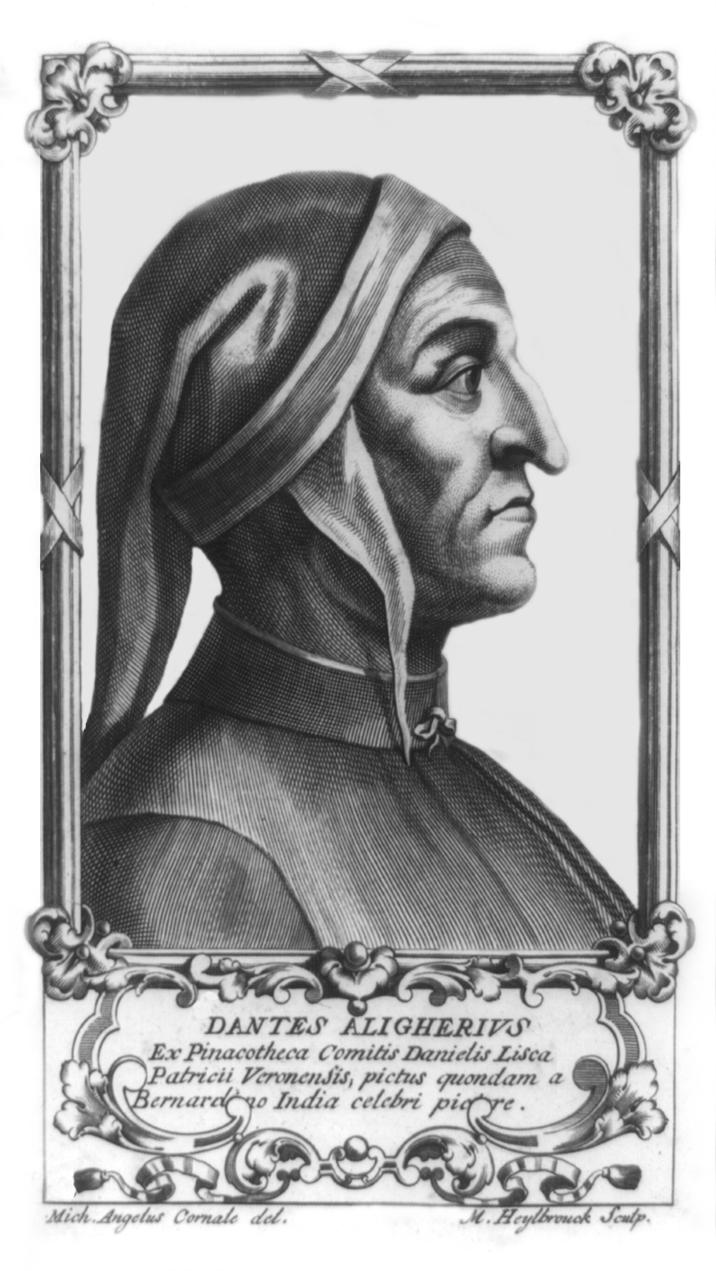 Dante Alighieri (1265-1321), illustration (copper engraving) from "Divine Comedy": bust portrait, right profile, frontis. v. 1. of 1727 edition.